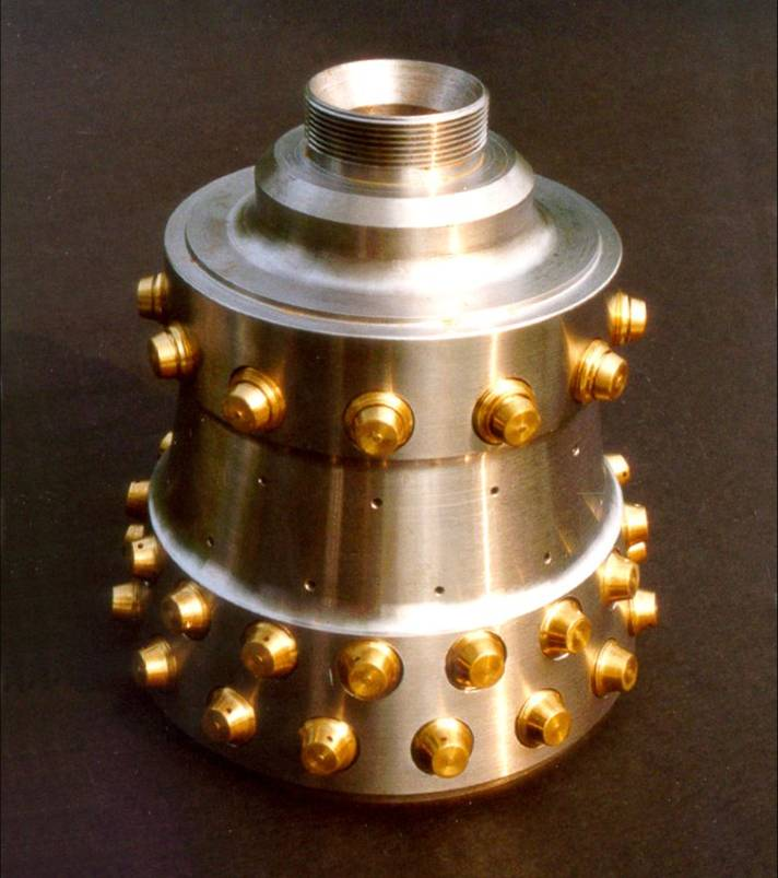 Konrad Dannenberg designed the multiple mixing nozzles in the sample shown. This is one of 18 units that was part of a rocket engine combusion chamber.